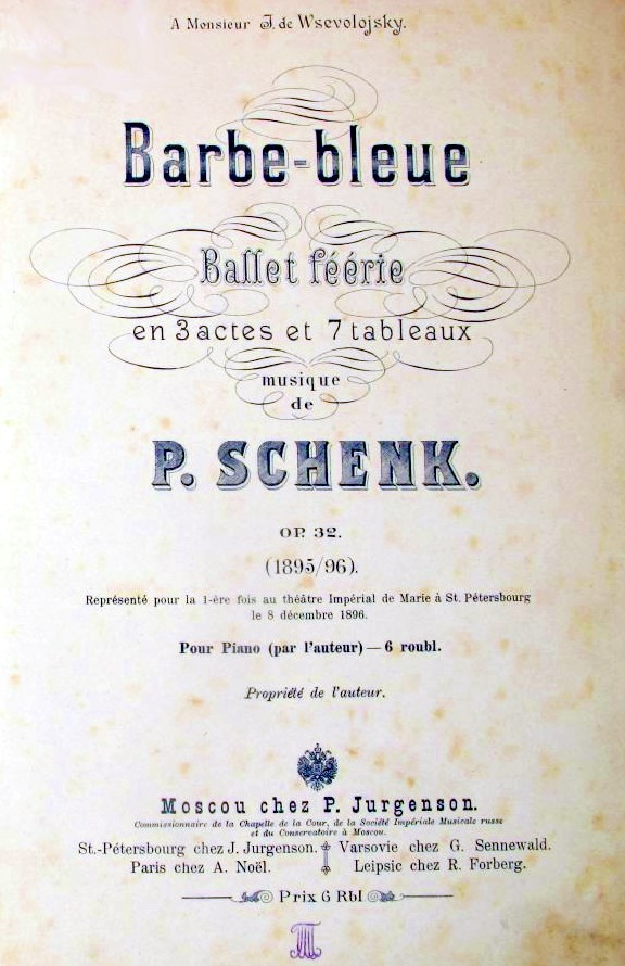 French-language frontispiece for the piano reduction of the composer Pyotr Schenk's (1870-1915) score for the ballet "Barbe-bleue" ("Bluebeard") by the choreographer Marius Petipa (1818-1910).